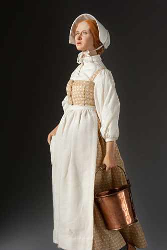 Historical Mixed Media Figure of Ann Rutledge produced by artist/historian George S. Stuart and photographed by Peter d'Aprix. This image, from the George S. Stuart Gallery of Historical Figures® archive ( is provided for all uses with appropriate attribution. Any derivatives must be shared in the same manner. Contributor mharrsch is webmaster for the gallery site.